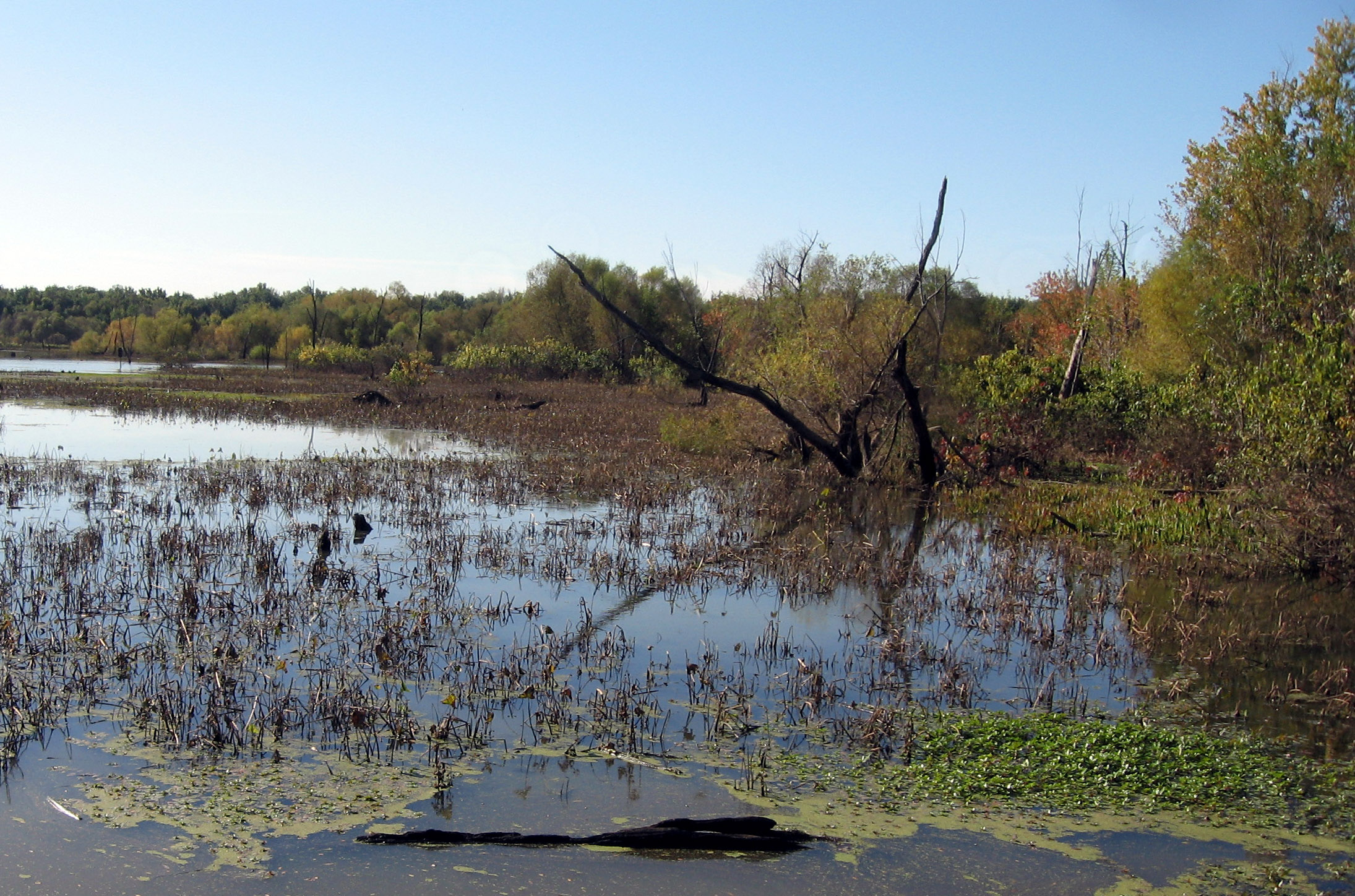 Meander scar wetland, south of Fort Madison, Iowa, Mississippi River Valley